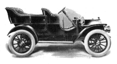 1911 Maytag 24 HP Model B Toy Tonneau. In this model year only, the former Mason two cylinder car was called a Maytag. The name reverted to Mason in 1912. These cars were also known as Maytag-Masons.